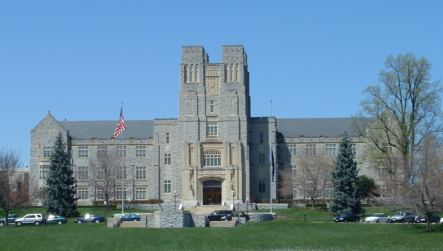 Virginia Tech's Burruss Hall taken from the drillfield